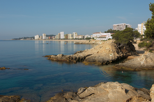 The very long sand beach of Platja d'Aro